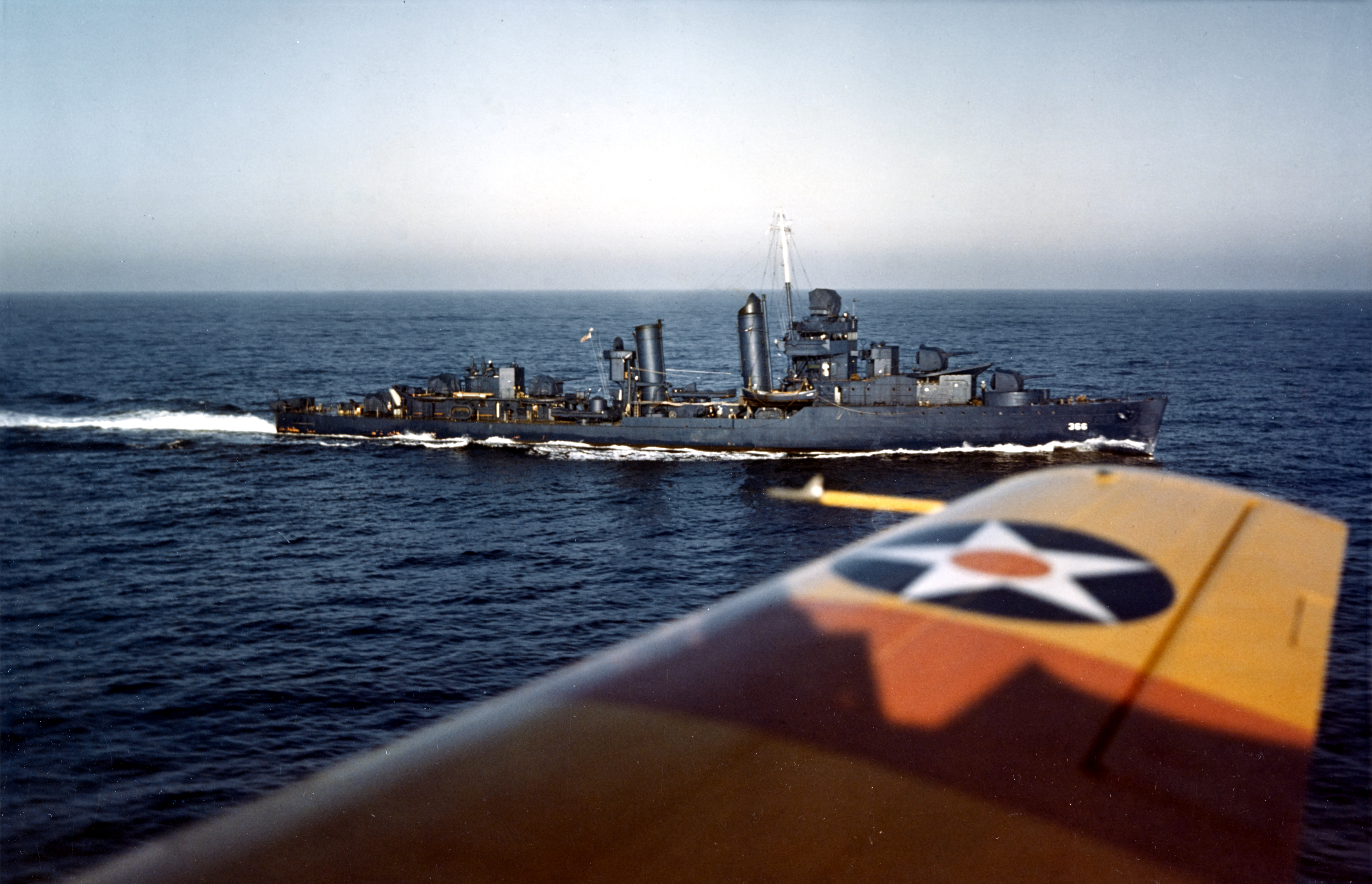 The U.S. Navy destroyer USS Drayton (DD-366) underway at sea, off the U.S. West Coast, circa October 1941. Photographed from a Navy North American SNJ Texan aircraft, whose chrome yellow starboard wing is in the foreground. Note Drayton's Measure 11 camouflage, which was the source of her contemporary nickname "The Blue Beetle".